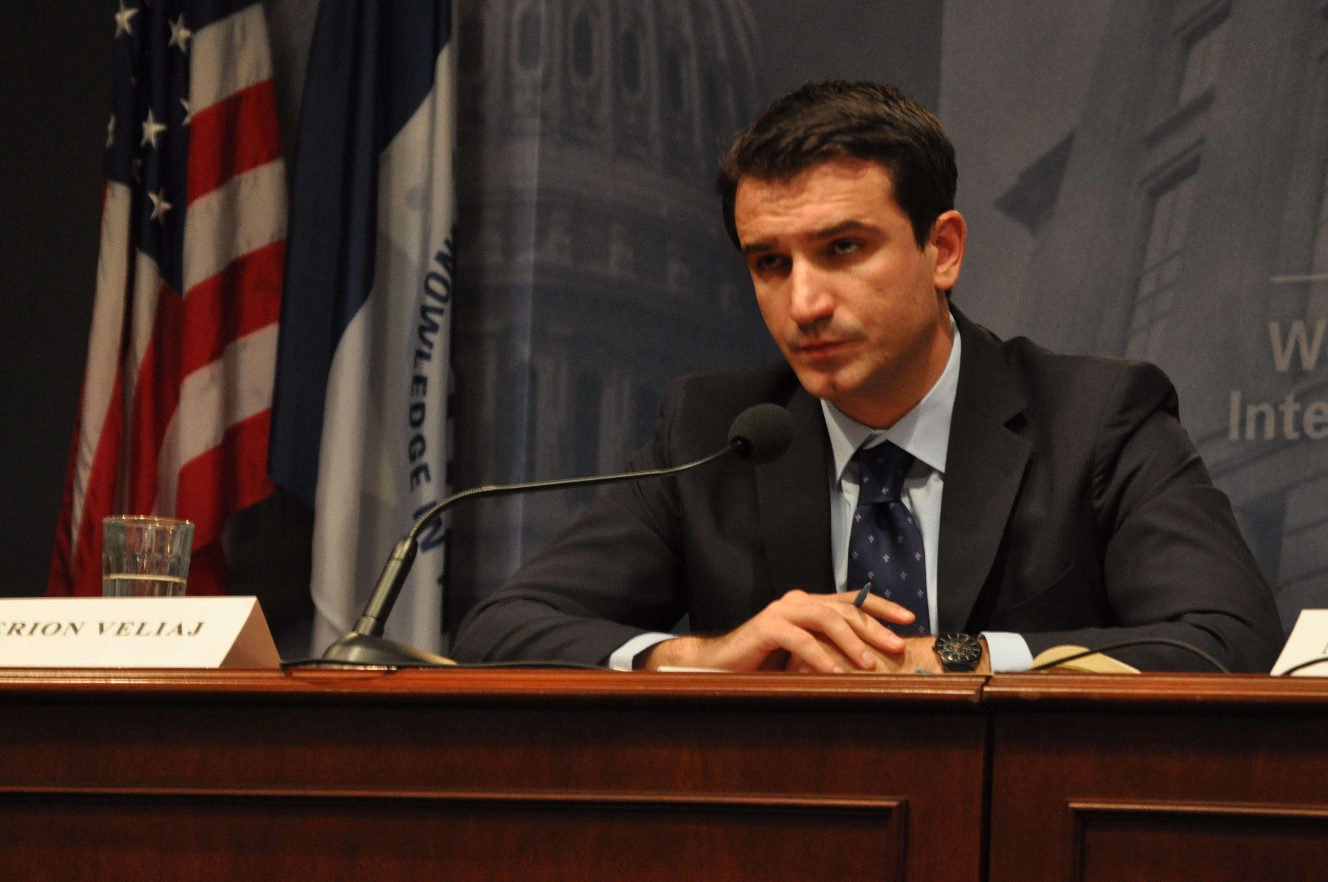 Albanian activist and opposition leader visited Washington D.C. to speak out against military violence during anti-government rallies. (Photo by Roshan Nebhrajani/Medill News Service)